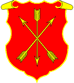 Coat of arms of Proskuriv (nowadays Khmelnitsky) at times of Polish–Lithuanian Commonwealth